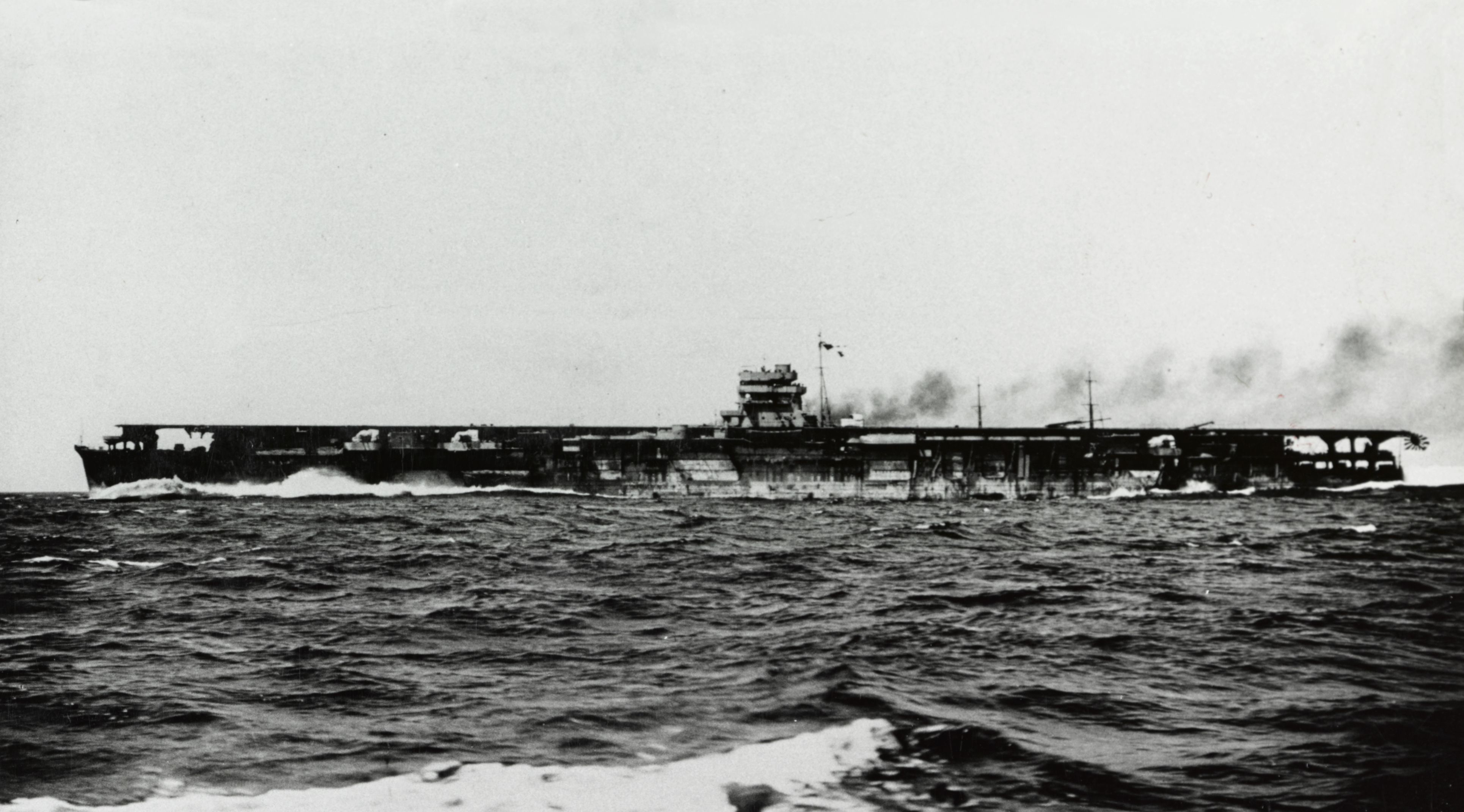 The Japanese aircraft carrier Hiryu running speed trials on 28 April 1939.